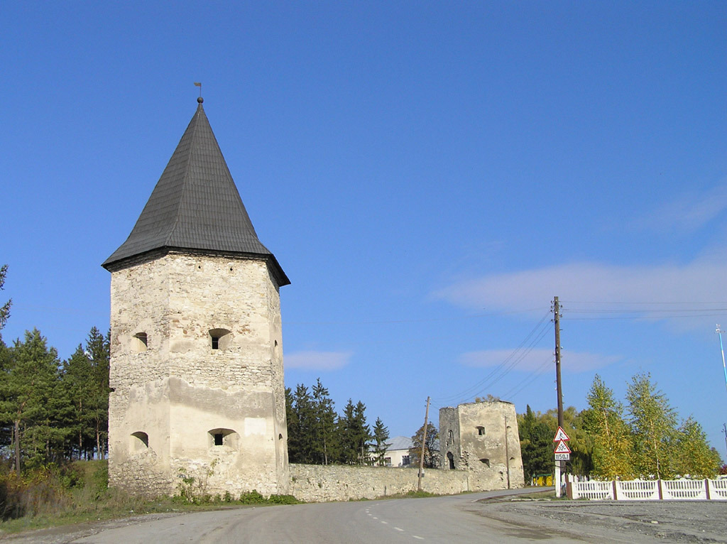 Castle, village Kryvche, Ukraine